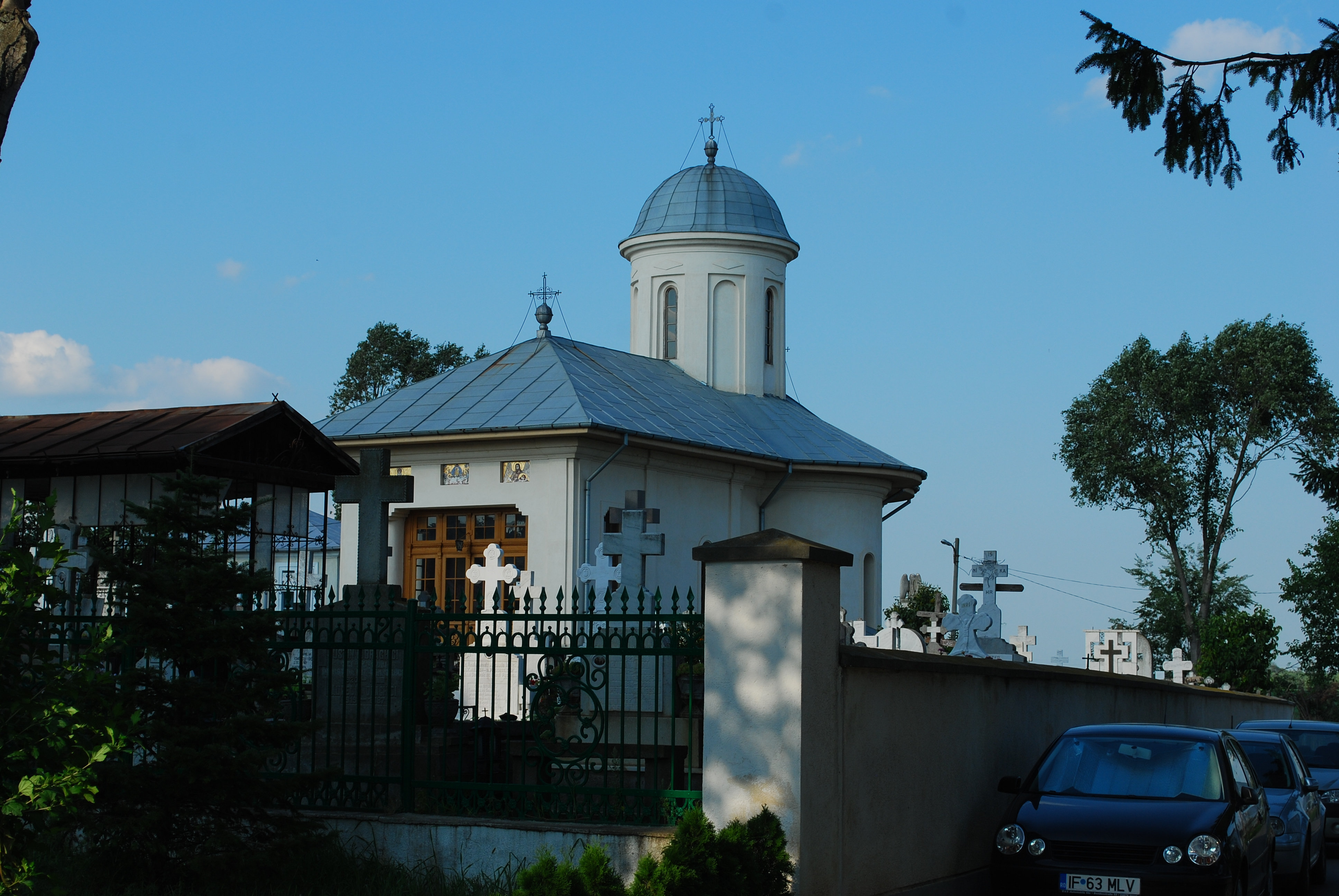 Dormition church in Pasărea monastery, Brăneşti commune, Ilfov County, RomaniaRomână: Biserica Adormirea Maicii Domnului de la mănăstirea Pasărea, comuna Brăneşti, judeţul Ilfov, România